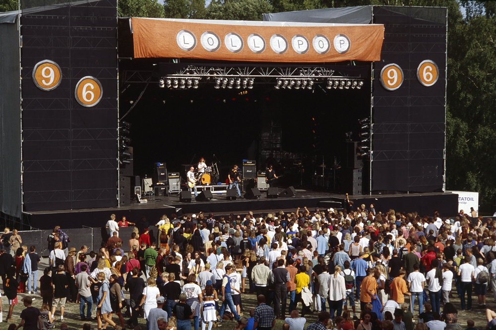 Rock festival Lollipopfestivalen near Stockholm, Sweden in 1996.